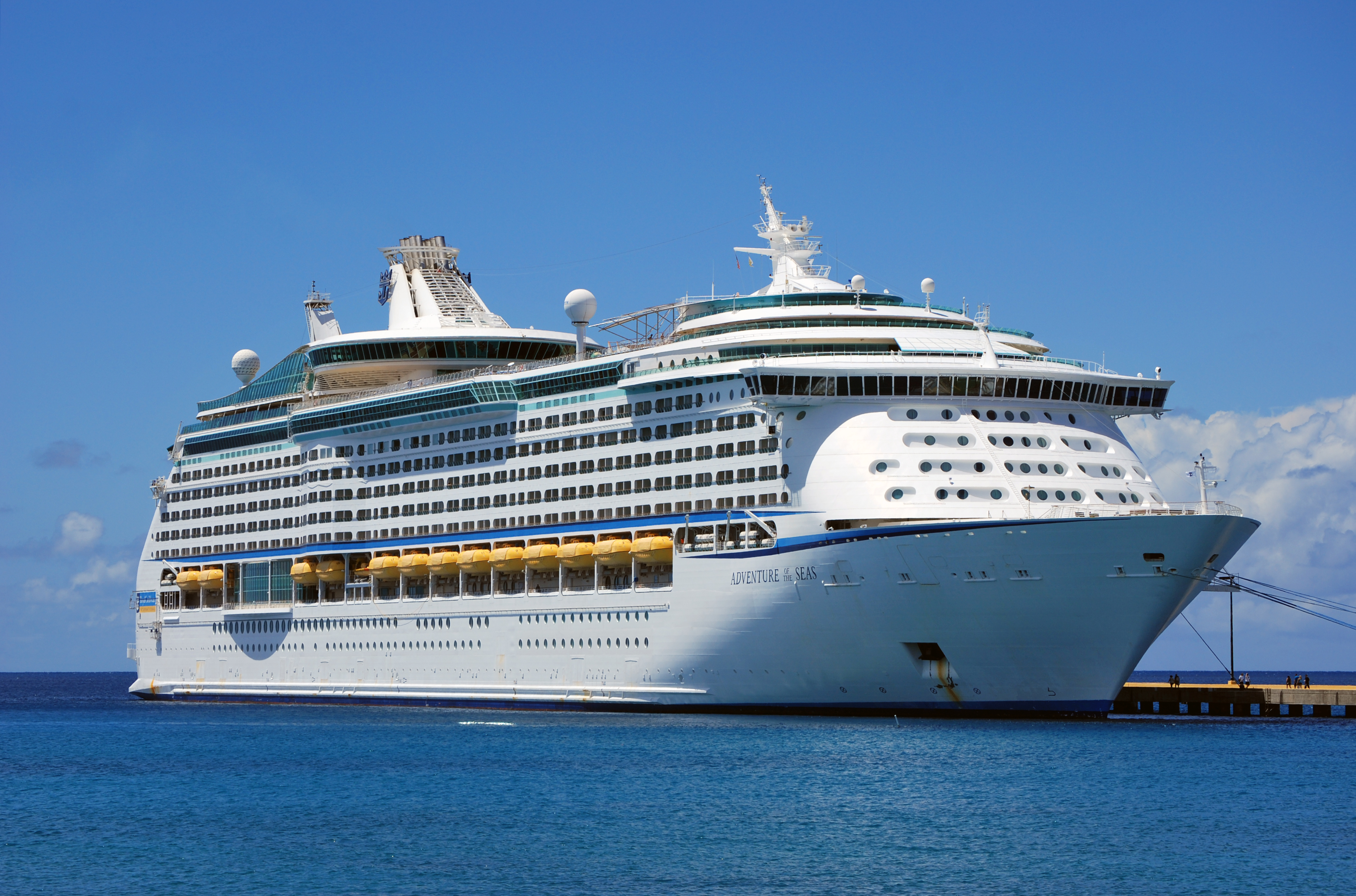 MS Adventure of the Seas, a Royal Caribbean International cruise ship, docked in Frederiksted on the island of Saint Croix in the U.S. Virgin Islands